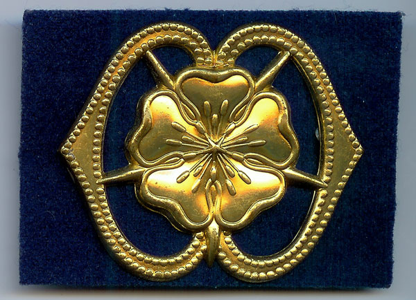 Dutch Cap Badge from the Army Woman Corps (1948 - 1982)